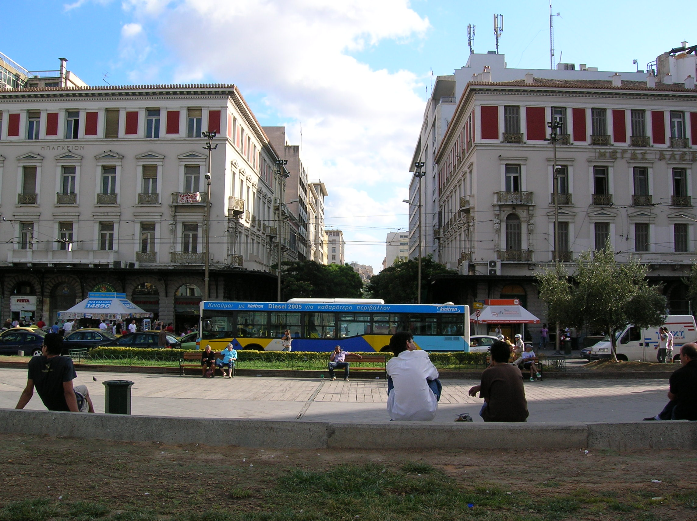 Omonia Square, Athens, Greece.